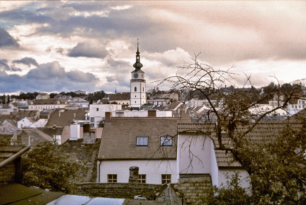 panorama from above the Jewish quarter